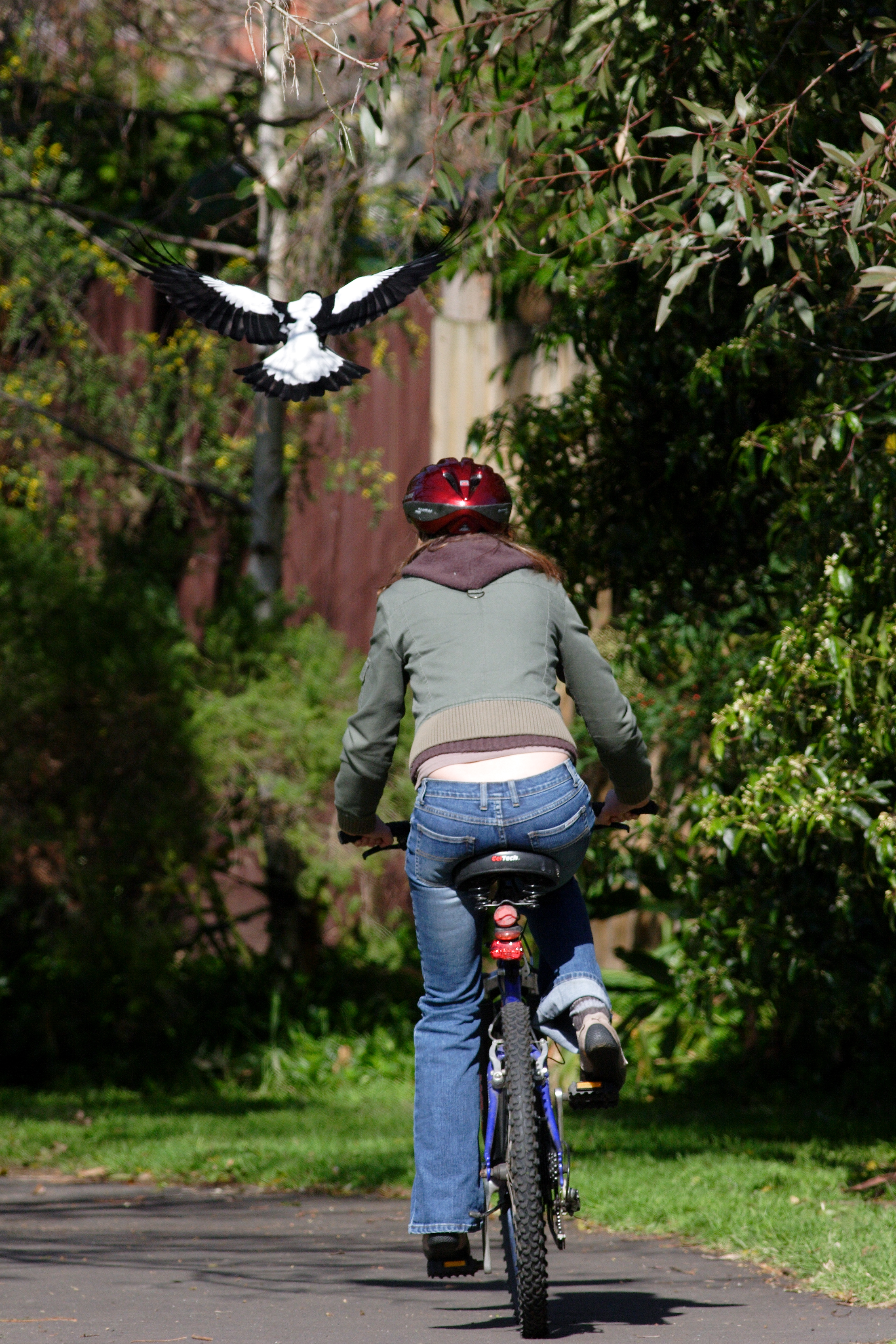 A woman cyclist in Australia. An Australian Magpie is flying near her.